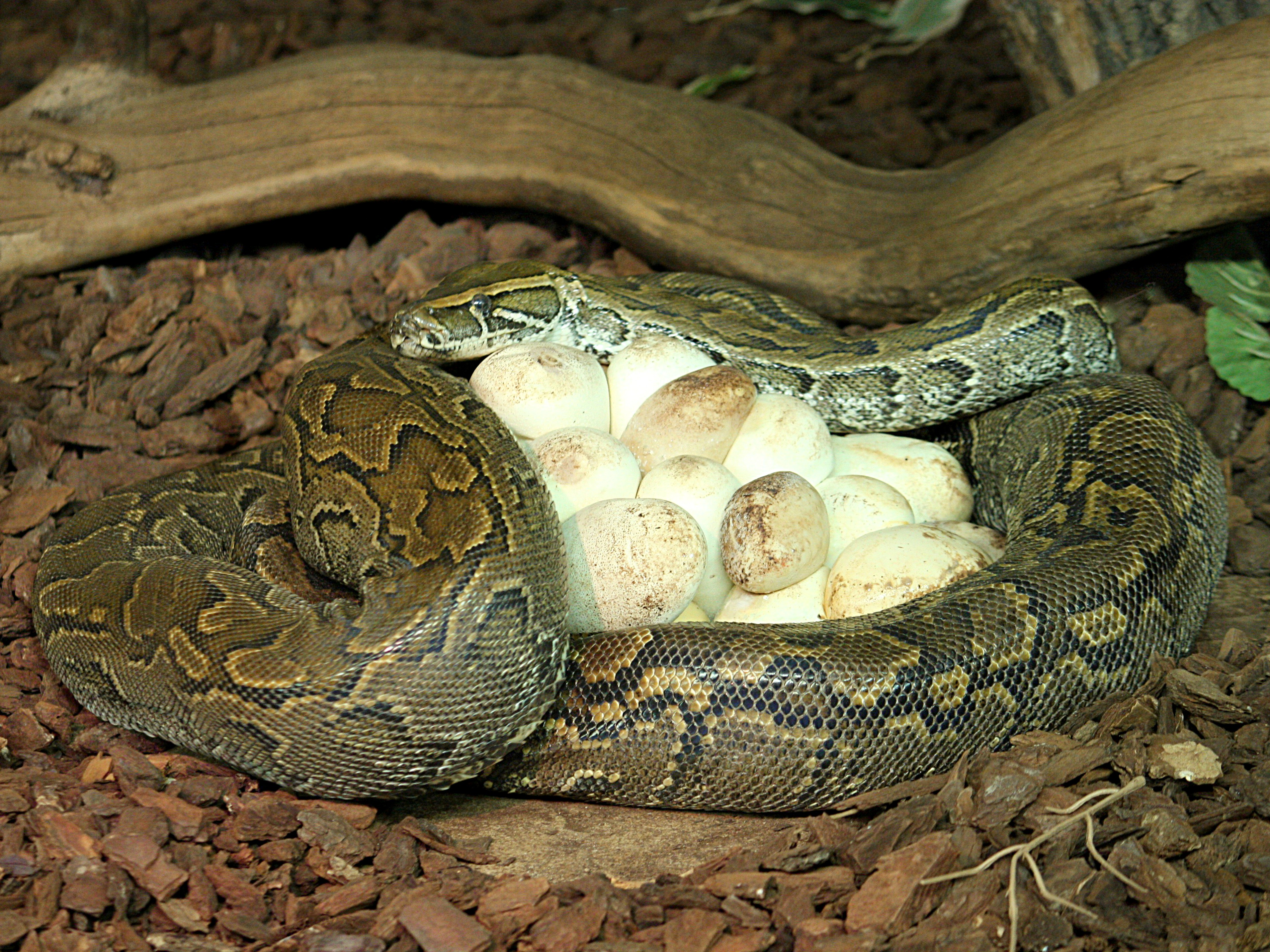 Female Northern African Rock Python (Python sebae) brooding eggs at Tropicario - The Tropical Animal House, Helsinki, Finland. This picture is a donation of Tropicario, Finland (J. Lanki)